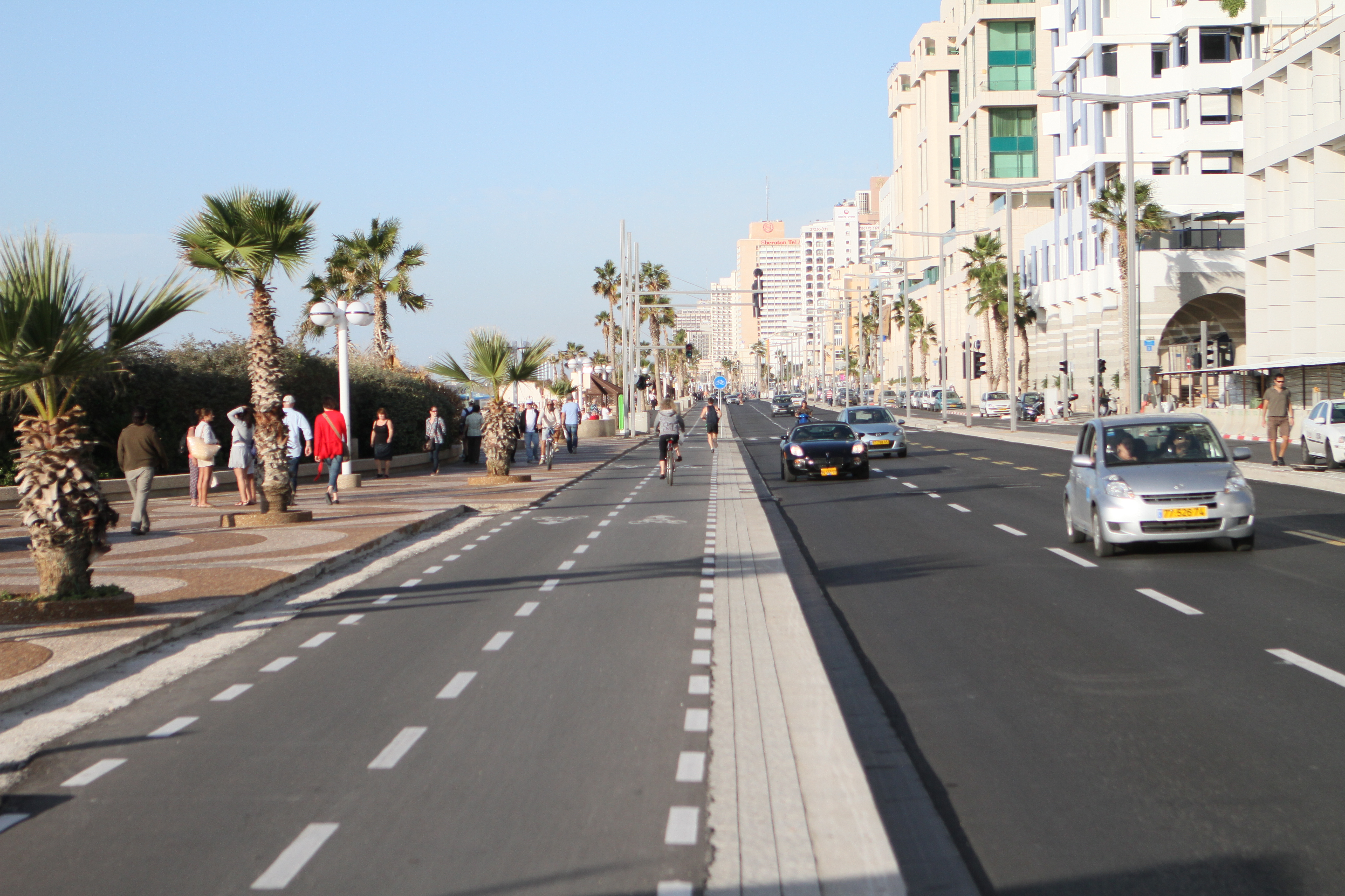 Bikes Lane at Tel Aviv Promenade "Hatayelt"